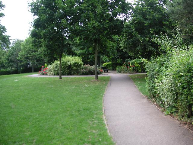 Photo of Lydekker Park, Harpenden